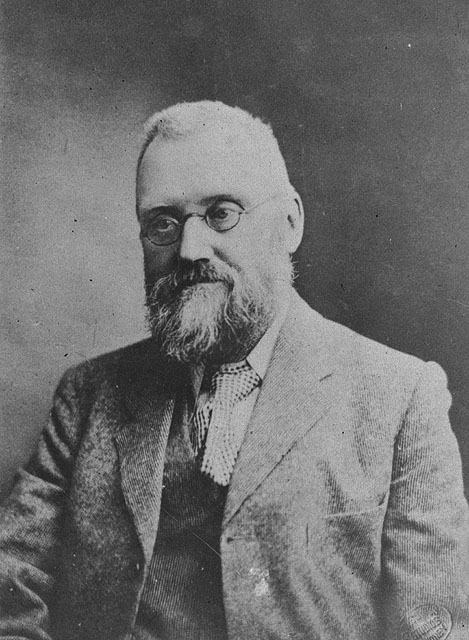 William James Farrer (3 April 1845 – 16 April 1906), Australian agronomist